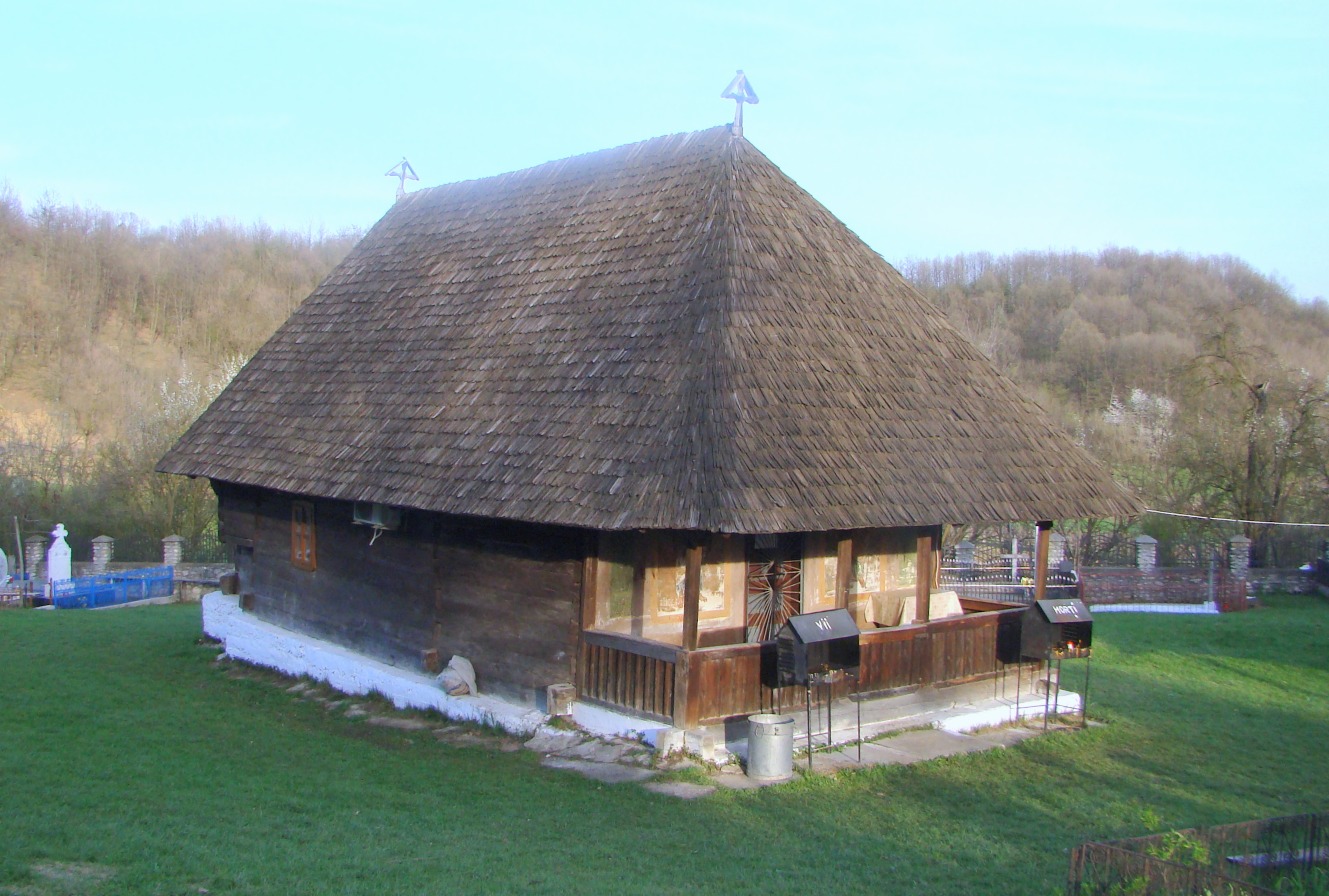 Wooden church in Artanu, Gorj county, Romania